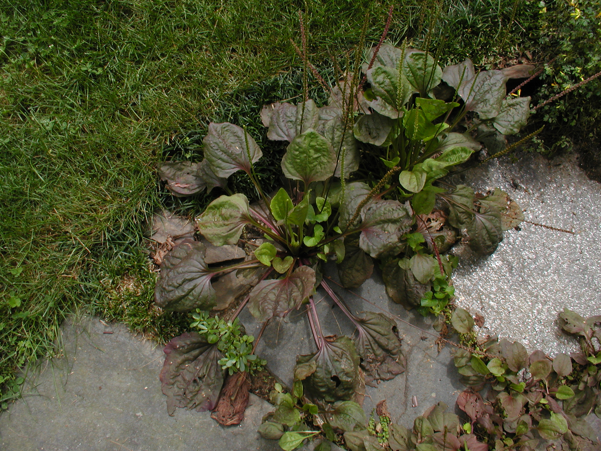 Cultivar 'Rubrifolia' of Plantago major